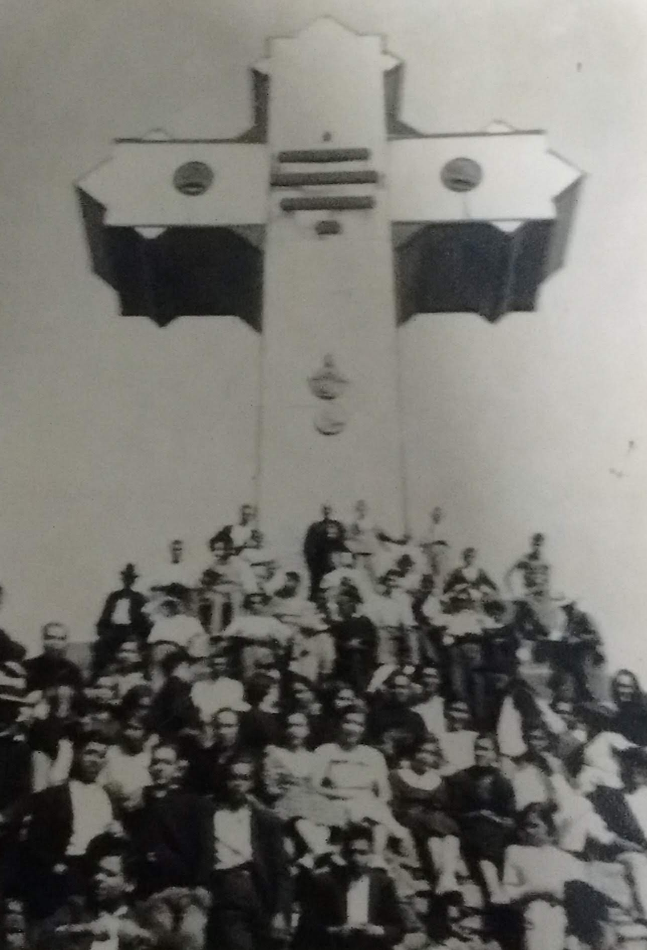 Pilgrims of the Cross on the Bartolo Mountain before 1936